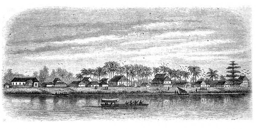 View of Guisanbourg from the Approuague River. Drawing from 1856 from Lebraton after M.L.Berard